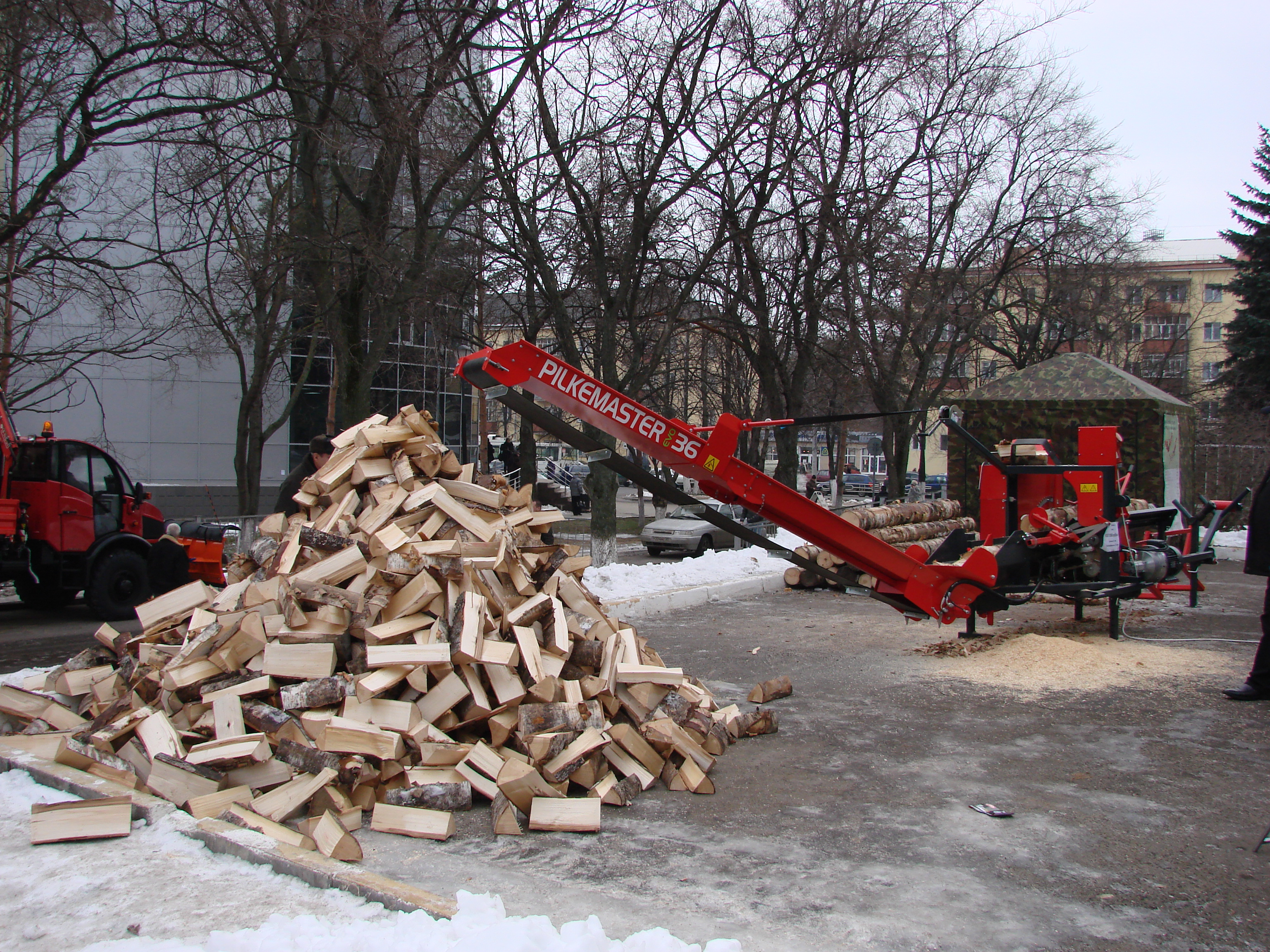 Russia, Vologda, Exhibition-Fair «Russian forest», Log splitter - Woodworking machine. This is called a wood processor in the U.S.A., it cuts, splits and loads firewood.